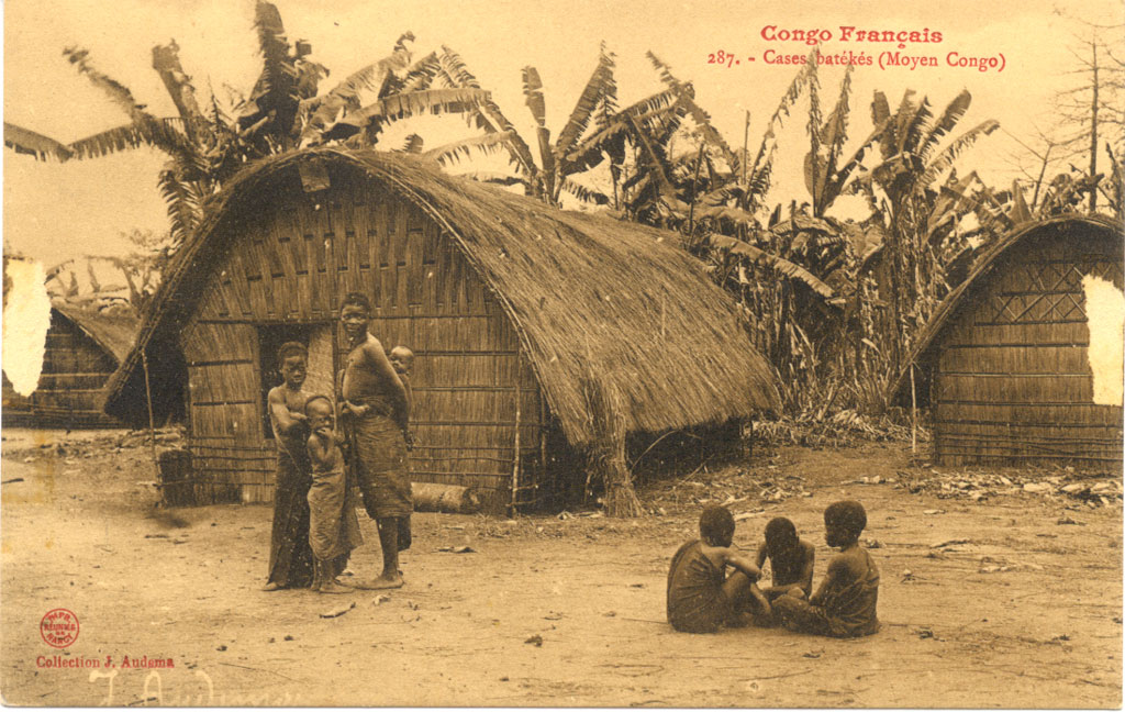 Title: Congo Français [postcard] : Congo Français - Cases batékés (Moyen Congo) Translated caption reads: French Congo. Batéké cabins (Middle Congo). Sitted children in the lower right side and mother with children in the left side. Cabins and palm trees in the background. Congo Français. Photograph by J. Audema Contained in: Postcard Collection, 1898-[ongoing] Produced: [ca. 1905] Physical_Description: postcard : b&w ; 9 x 14 cm. Local_Number: EEPA 1985-140046-02 Archival_Repository: Eliot Elisofon Photographic Archives